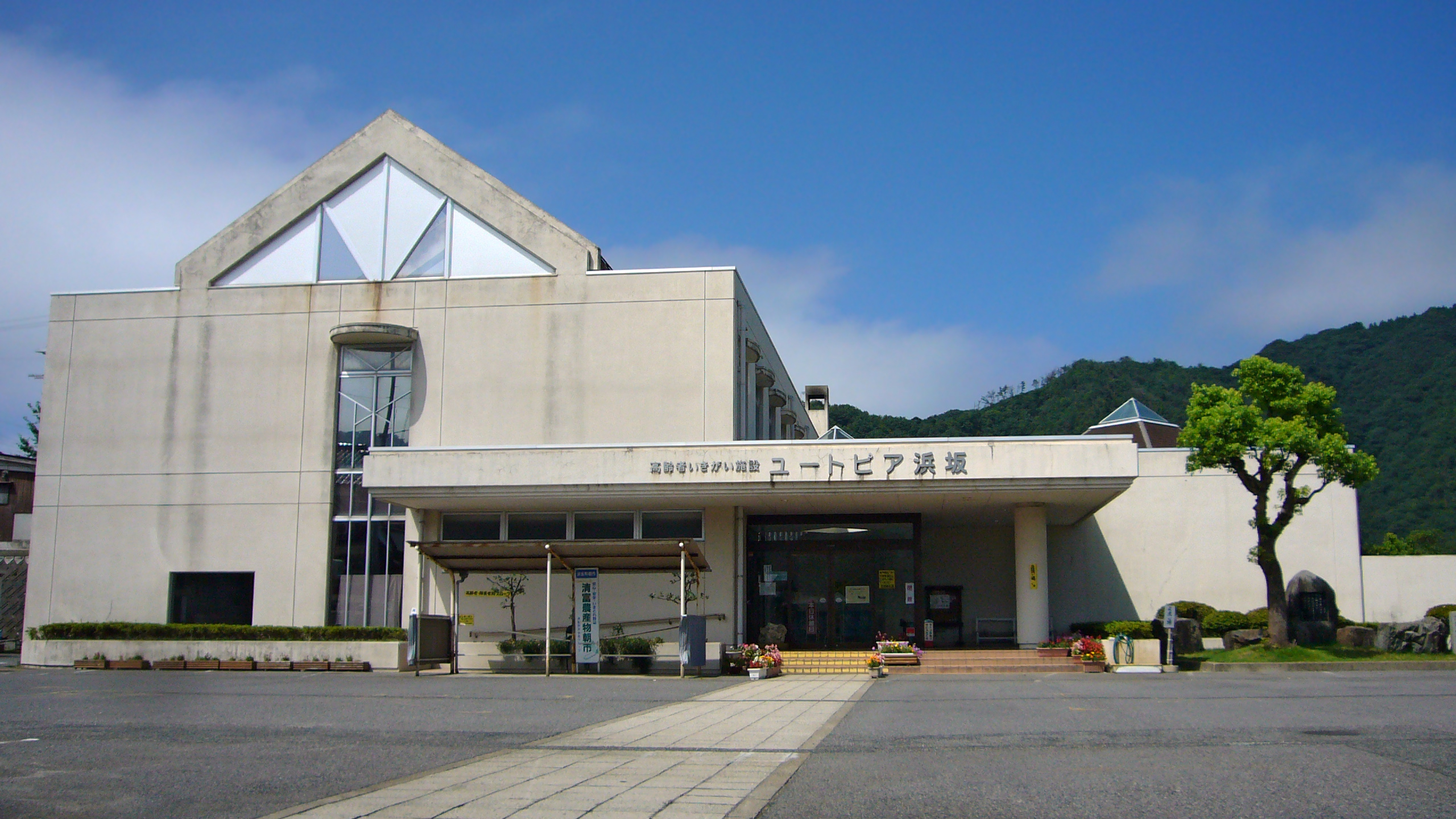 Hamasaka Onsen of Hamasaka Onsenkyo, Shinonsen, Hyogo prefecture, Japan